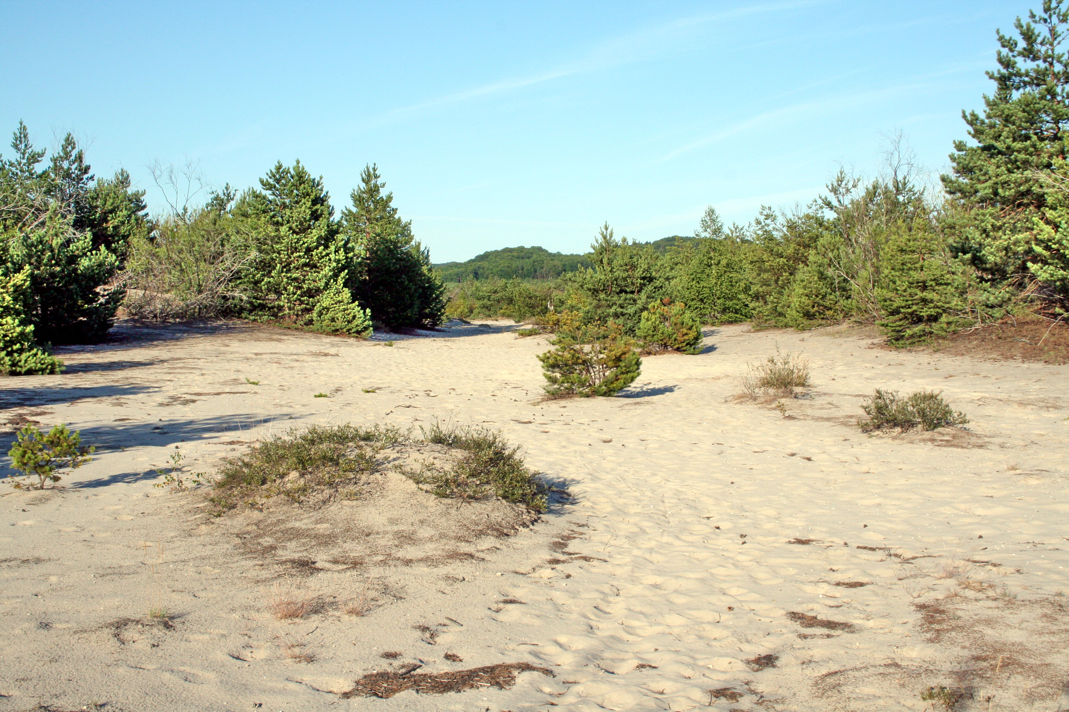 The Błędów Desert (which is a desert only by name), the SE part, which has still relatively sparse vegetation (the rest of the southern part is now overgrown with pine and caucasian willow). View to the east: the cliff of the Kraków-Wieluń Upland and the Czubatka hill near Klucze